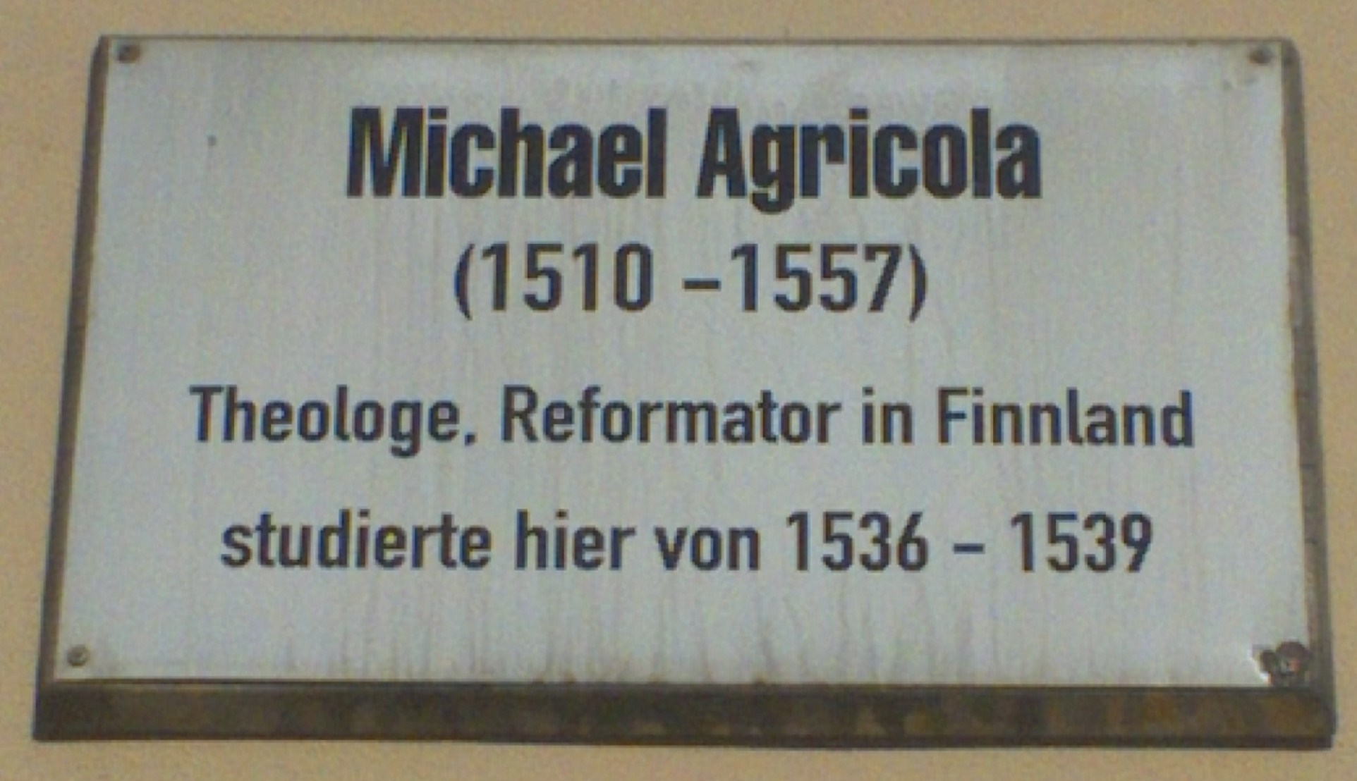 The memory plate of Mikael Agricola (father of the Finnish written language) in the wall of the University of Halle-Wittenberg, Germany